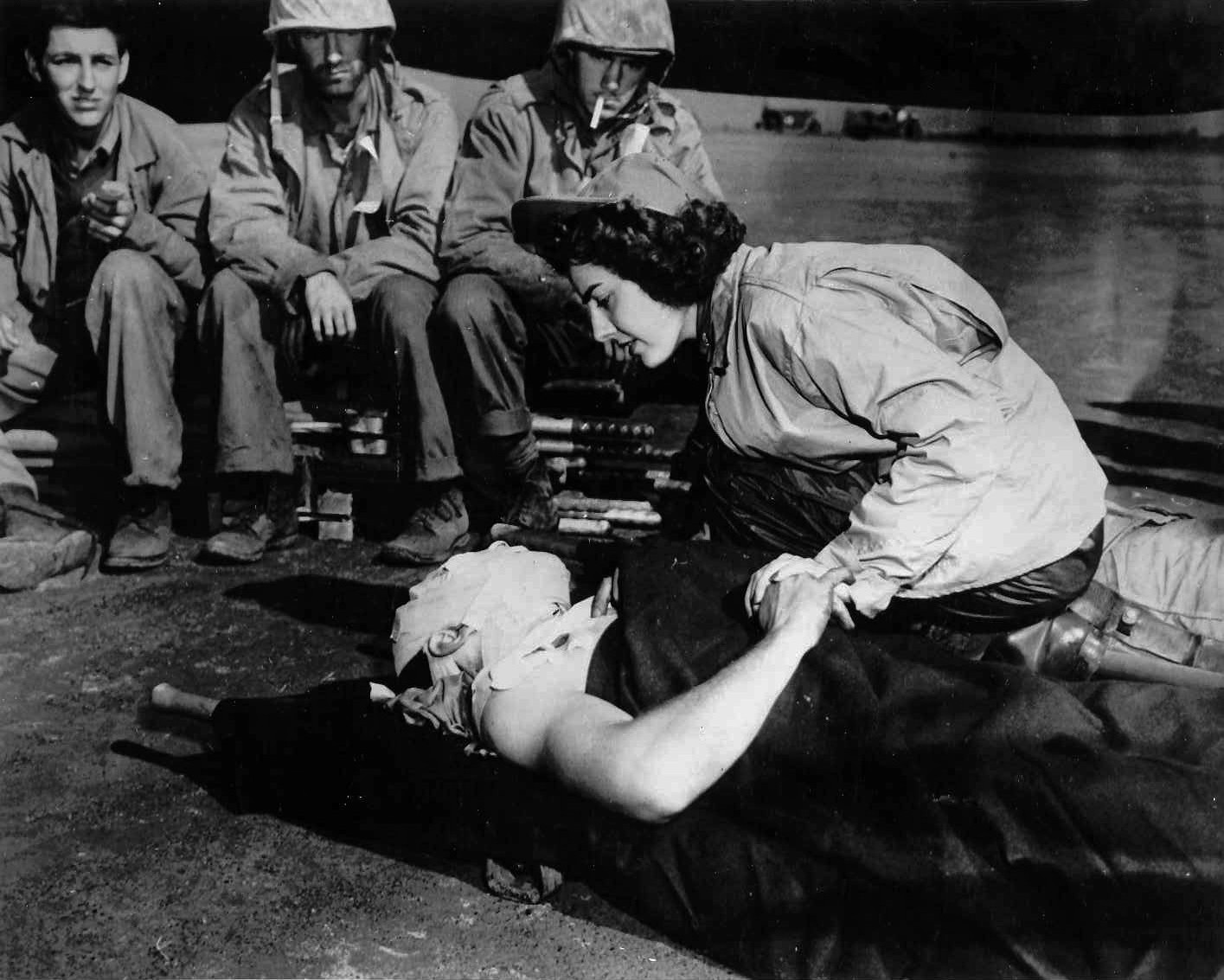 Flight nurse Jane Kendeigh, US Navy, caring for wounded Marine, William J Wycoff on Iwo Jima, March 3, 1945